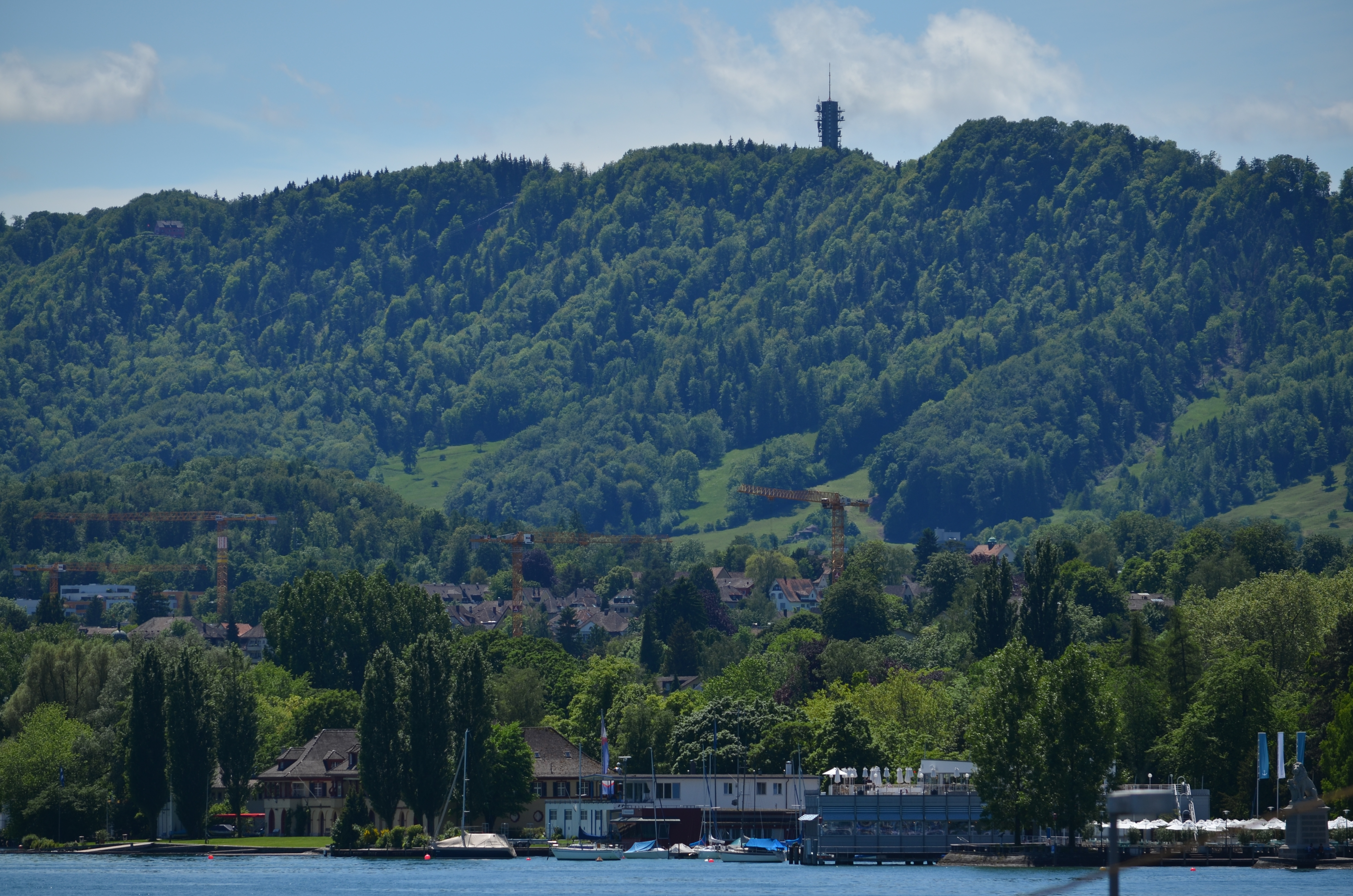 Felsenegg as seen from Zürichsee-Schiffahrtsgesellschaft (ZSG) MS Linth on Zürichsee (Switzerland)